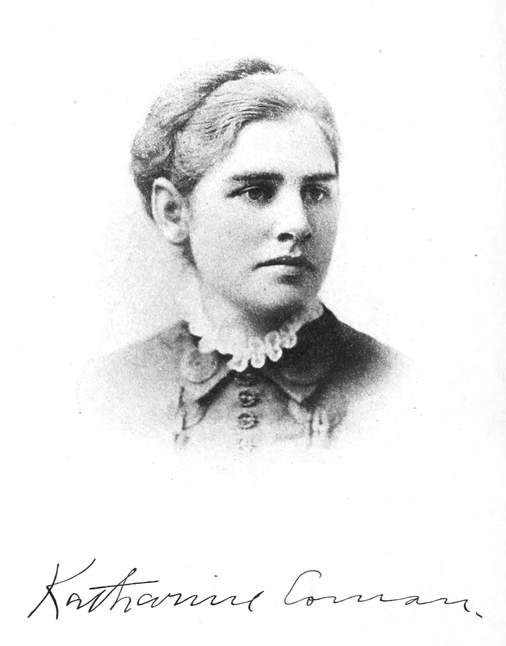 Katharine Coman, American economist and social activist